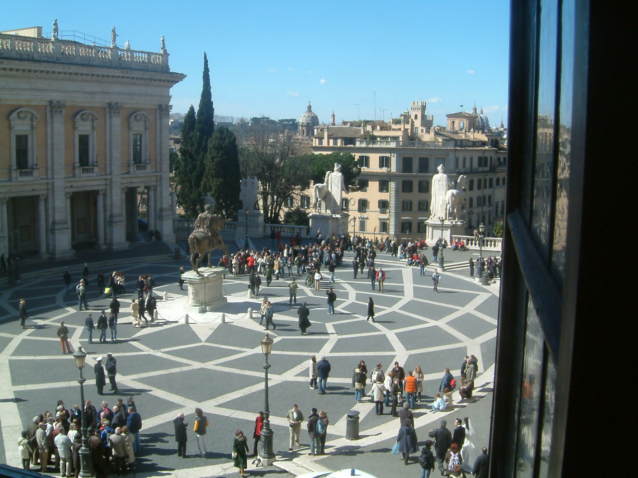 View from the Piazza del Campidoglio.